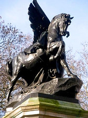 View of William Robert Colton's Royal Artillery Boer War Memorial in The Mall, London.